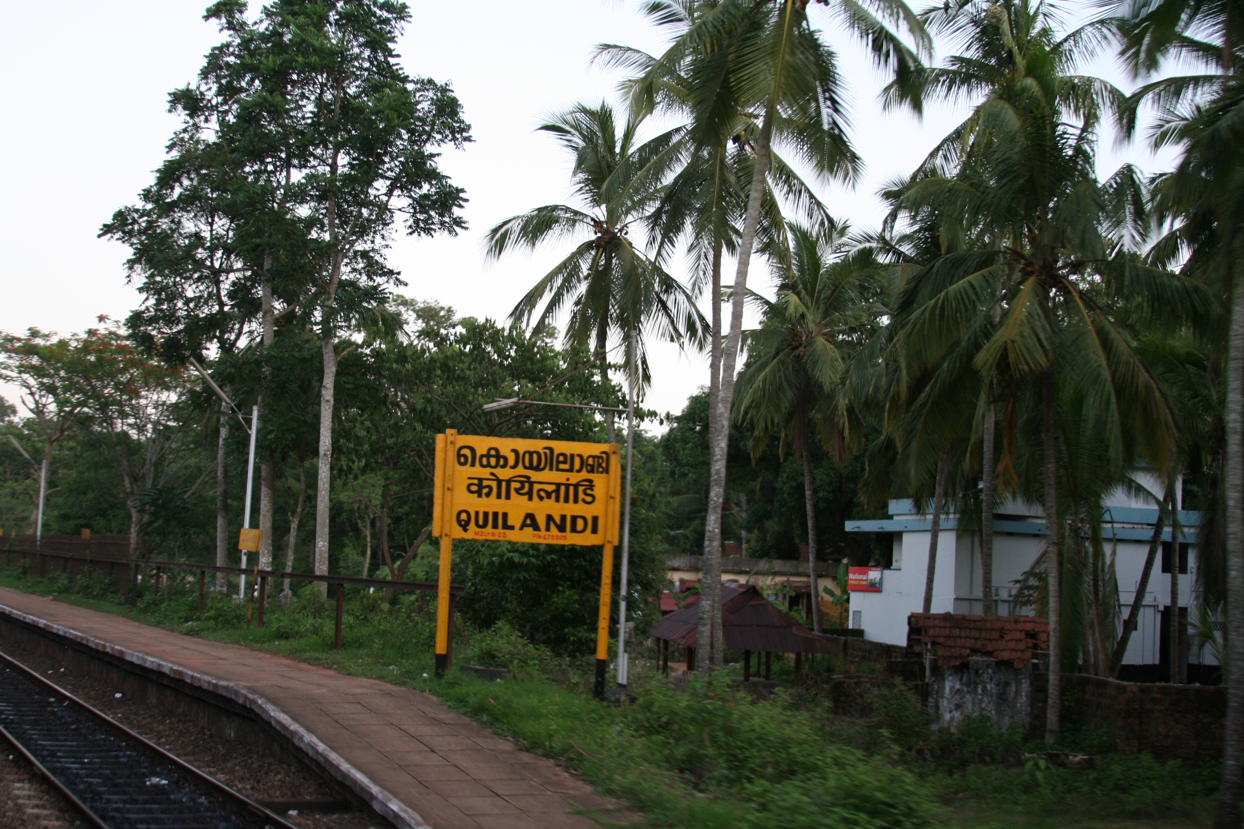 Quilandi railway station